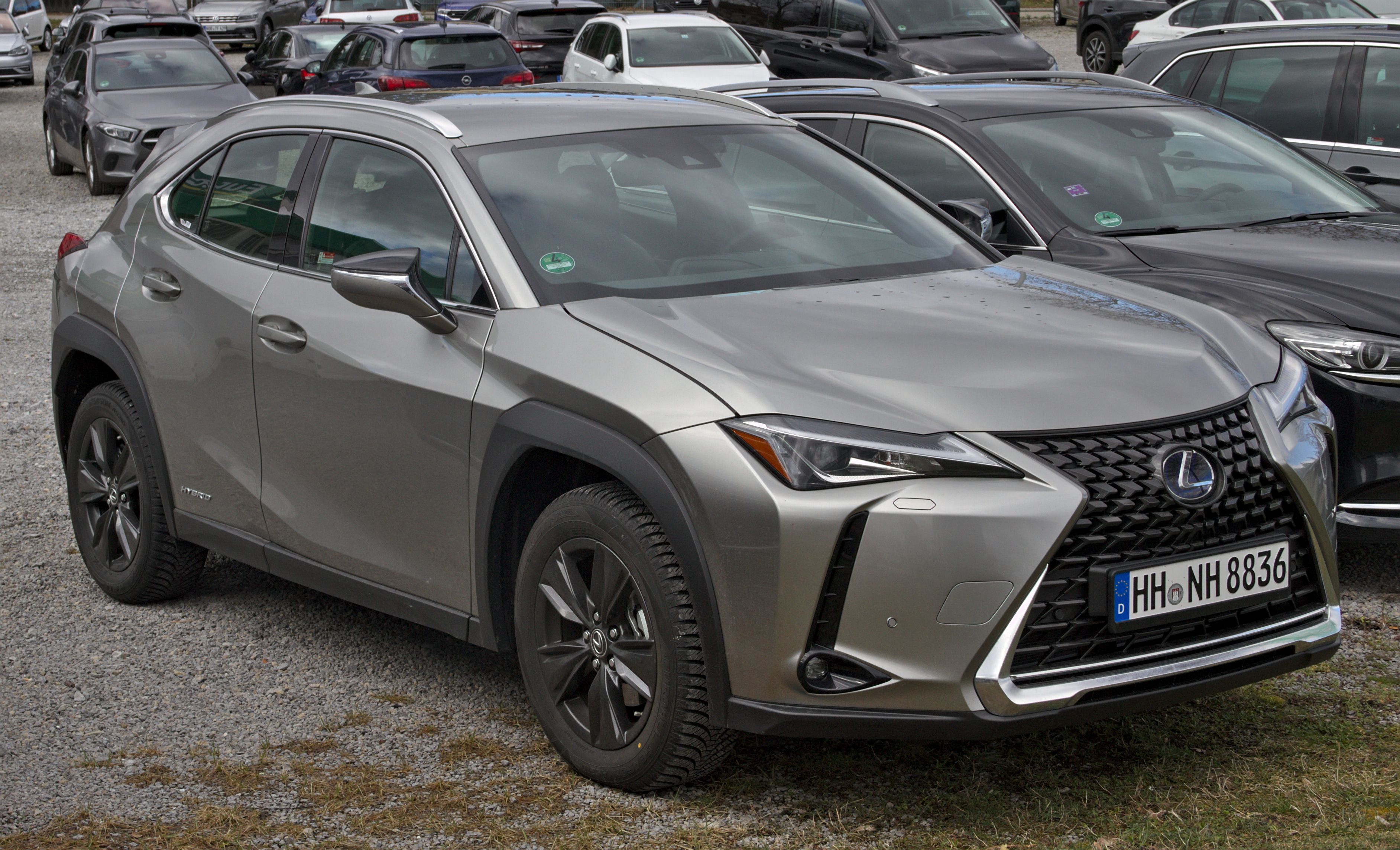 Lexus_UX_250h in Stuttgart-Vaihingen